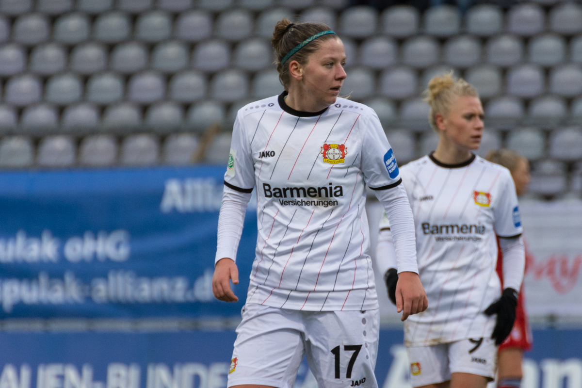 Louise Ringsing during the Bundesliga match vs FC Bayern